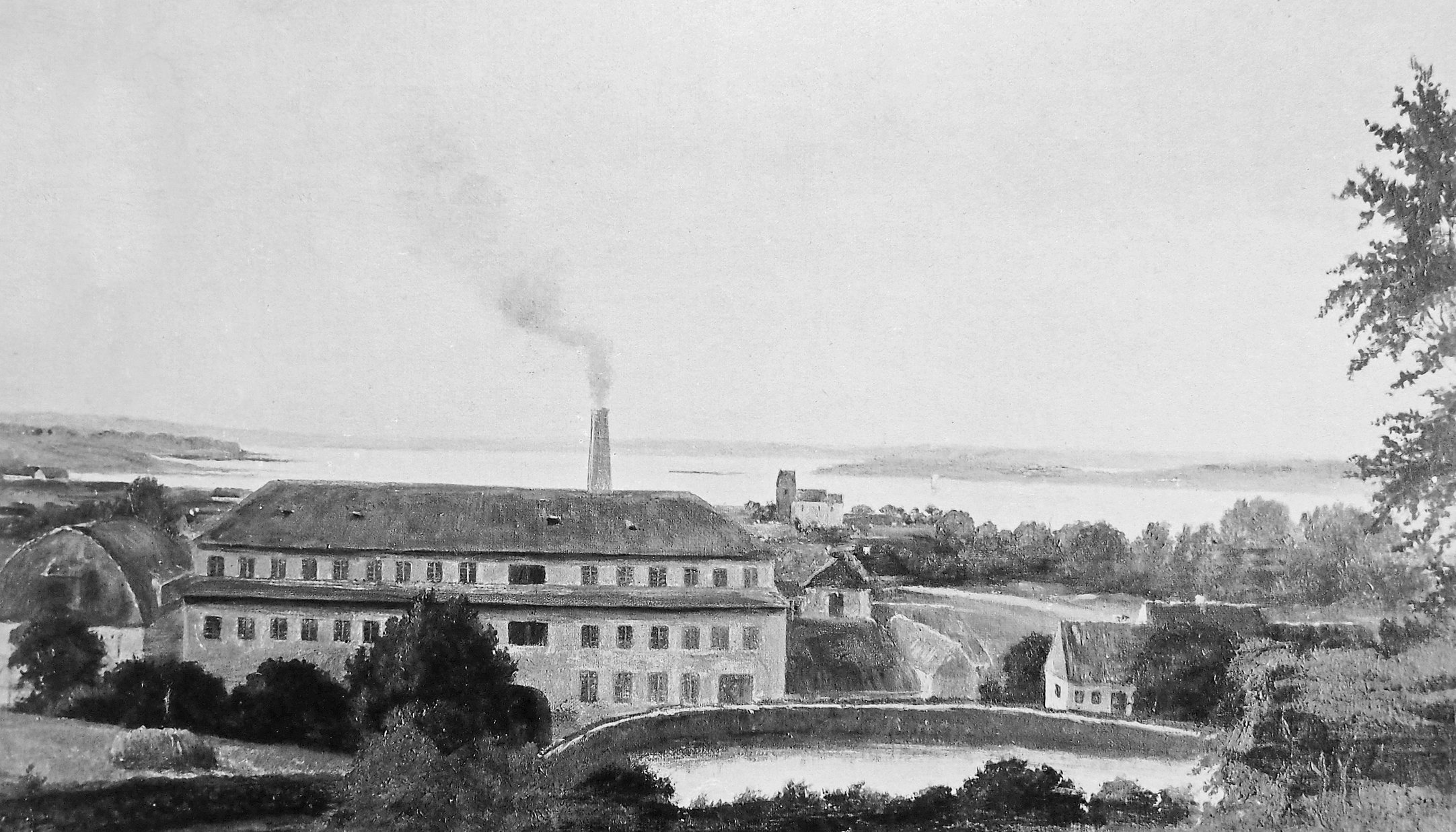 Maglekilde Mill in Roskilde, Denmark